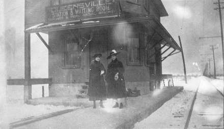 Two women at the radial station, the early 1900s. See here for confirmation of the date.